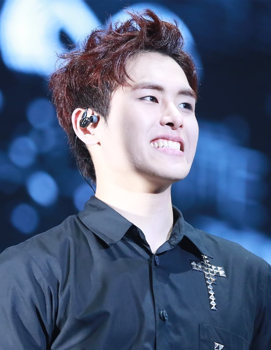 Hoya at the One Great Step Concert in Taipei on October 12, 2013.Português do Brasil: Hoya na One Great Step Concert em Taipei em 12 de outubro de 2013.